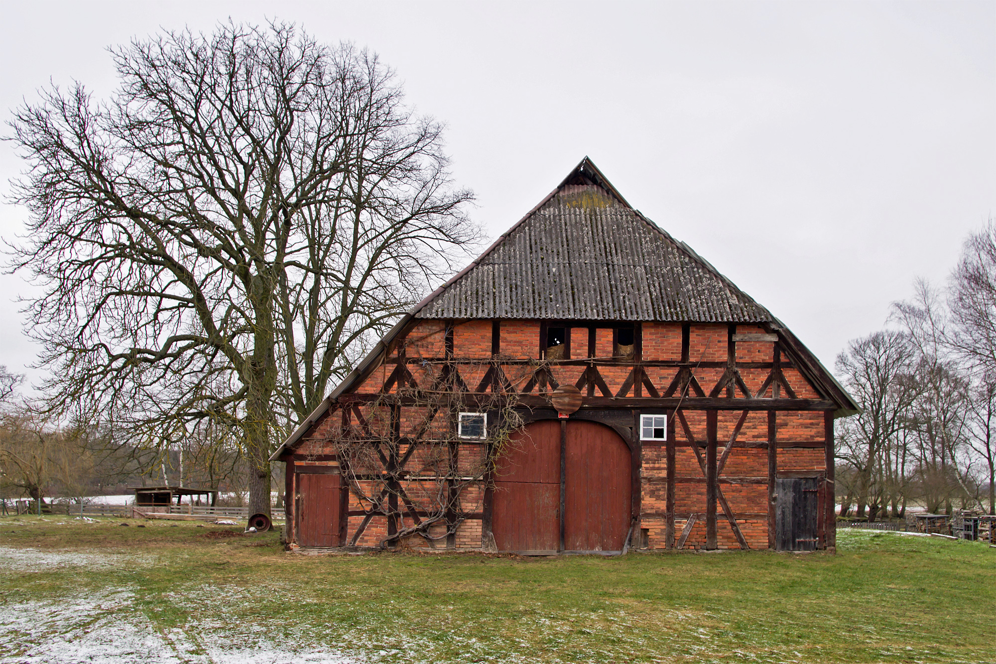 Cultural heritage monument "Heuweg 5" (former No 15) in the village Streetz near Dannenberg (Elbe), built in 1768.